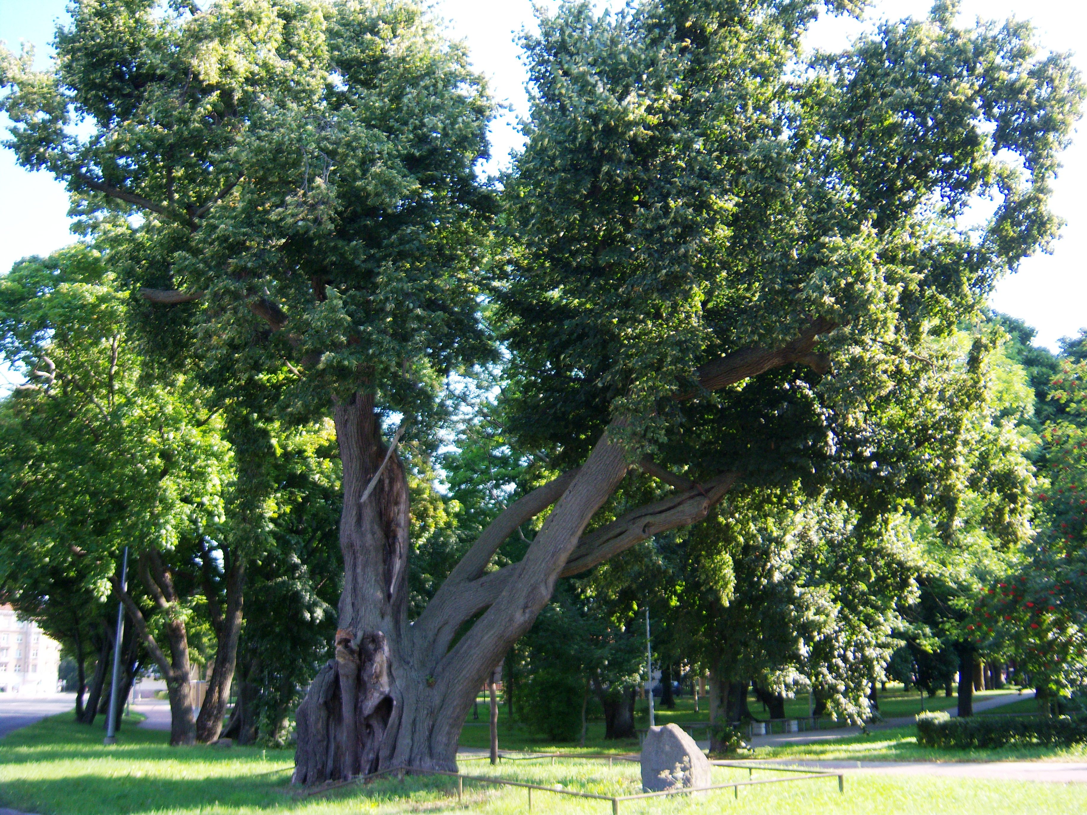 Lime the Thick, natural heritage object, small-leaved lime (tilia cordata) in Klaipėda, Lithuania